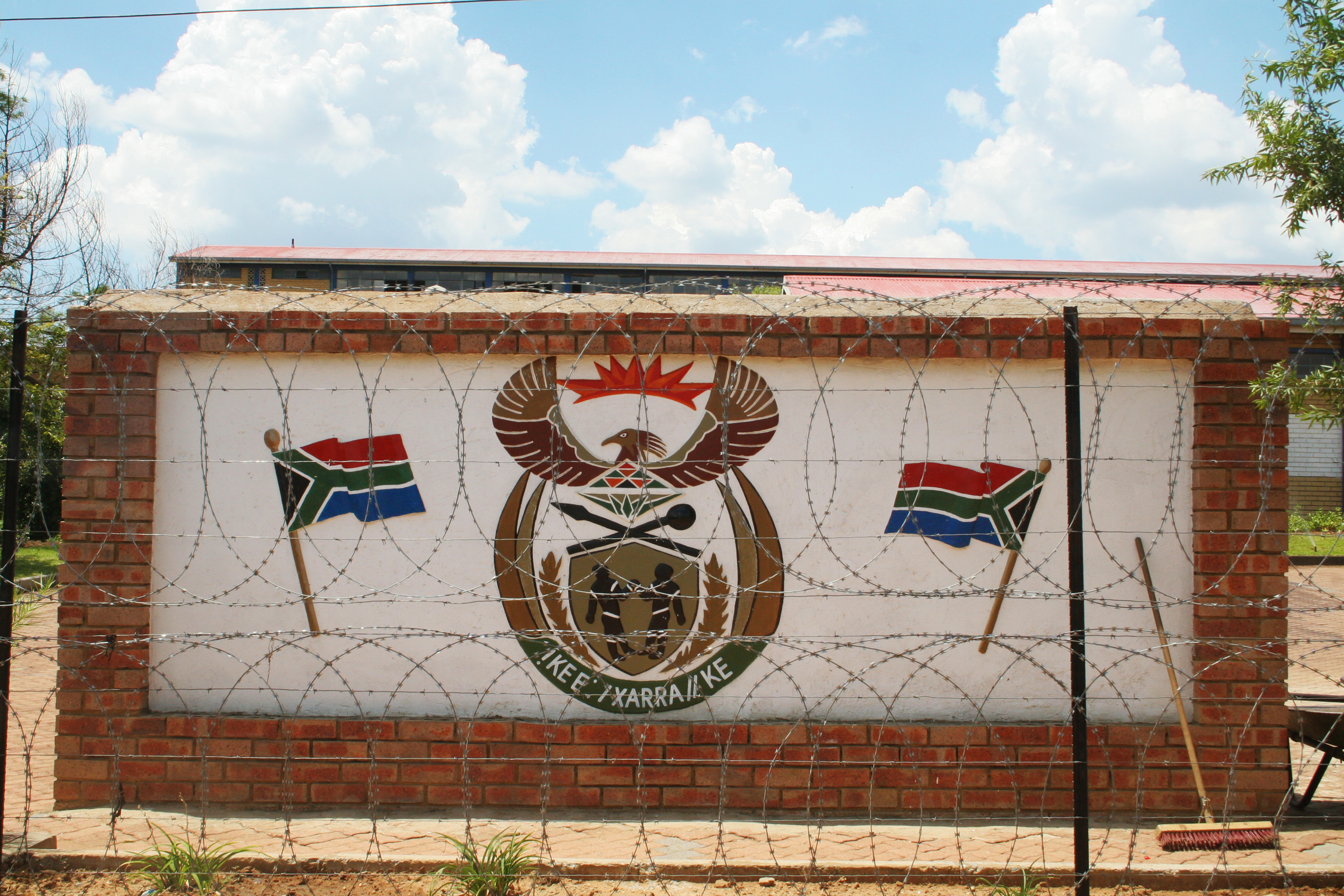 The seal & flag of South Africa. Hosea & I took a guided tour into the Soweto Township on one of the days Obenewa had to work. It is one of the original townships where black people were forced to move to during apartheid. Many, many black people still live there today because it is their community & home and also because even though they now have equal rights, there isn't any land elsewhere for them to own. White people own most of the land & even when they are selling it, it is not at a price that most black South Africans could afford.